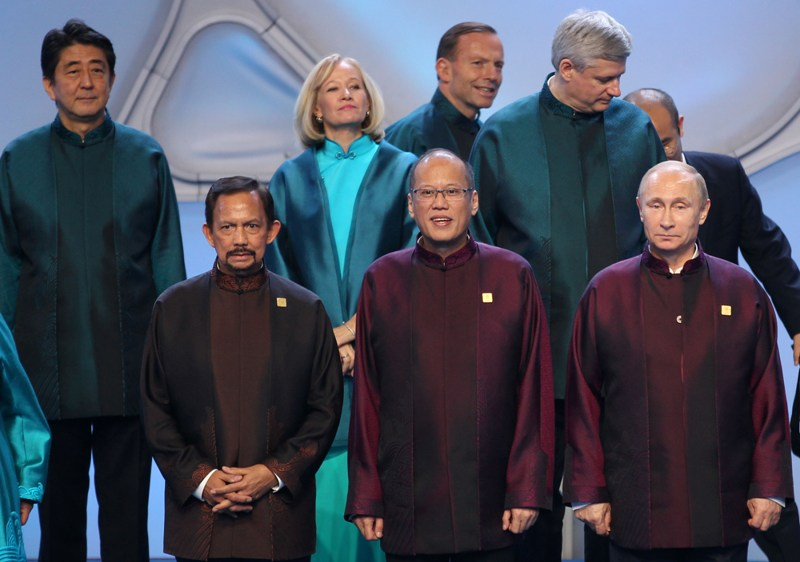 Japanese prime minister Shinzo Abe, Brunei's sultan Hassanal Bolkiah, ???, Philippine president Benigno Aquino III, Australian prime minister Tony Abbott, ???, Russian president Vladmir Putin, and ??? preparing for the Leaders' Family Photo at the Economic Leaders' Meeting at APEC China 2014 in Beijing on November 13, 2014. The men wear tangzhuang.